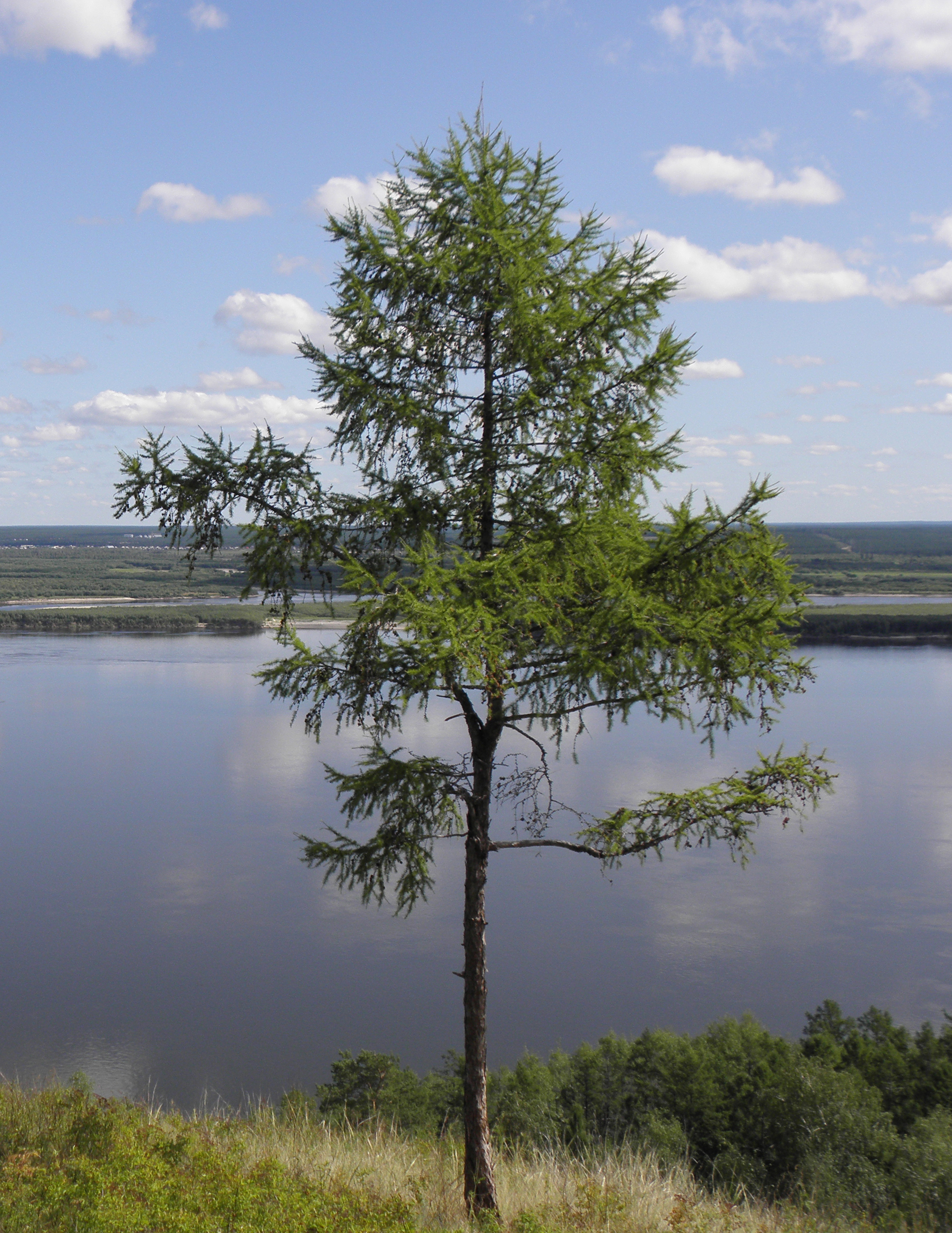 Larix gmelinii beside the River Lena at Tabaga, Yakutsk District, Russia